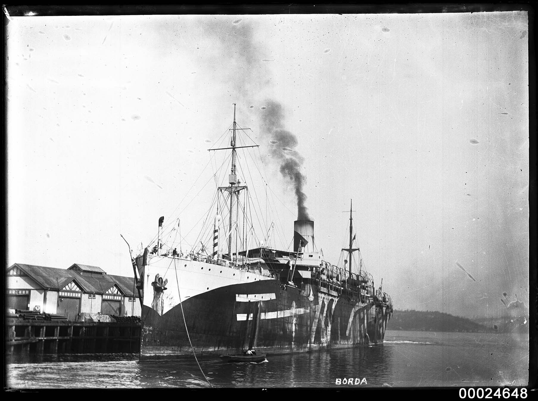 This glass plate negative depicts the portside bow view of HMAT BORDA beside wharf 10 at Millers Point, Sydney. Its hull and funnel are painted in dazzle camouflage. BORDA was requisitioned from the P&O Steam Navigation Company by the government for use as troopship in 1916 or 1917. This photo is part of the Australian National Maritime Museum’s Samuel J. Hood Studio collection. Sam Hood (1872-1953) was a Sydney photographer with a passion for ships. His 60-year career spanned the romantic age of sail and two world wars. The photos in the collection were taken mainly in Sydney and Newcastle during the first half of the 20th century. If reproduced or distributed, this image should be clearly attributed to the collection of the Australian National Maritime Museum; and not be used for any commercial or for-profit purposes without the permission of the museum. For more information see our Flickr Commons Rights Statement. The ANMM undertakes research and accepts public comments that enhance the information we hold about images in our collection. This record has been updated accordingly. Photographer: Samuel J. Hood Studio Collection Object no. 00024648